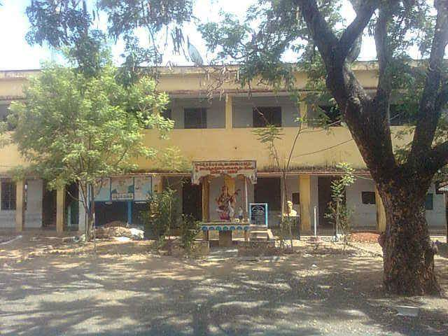 photo of Z.P.High School